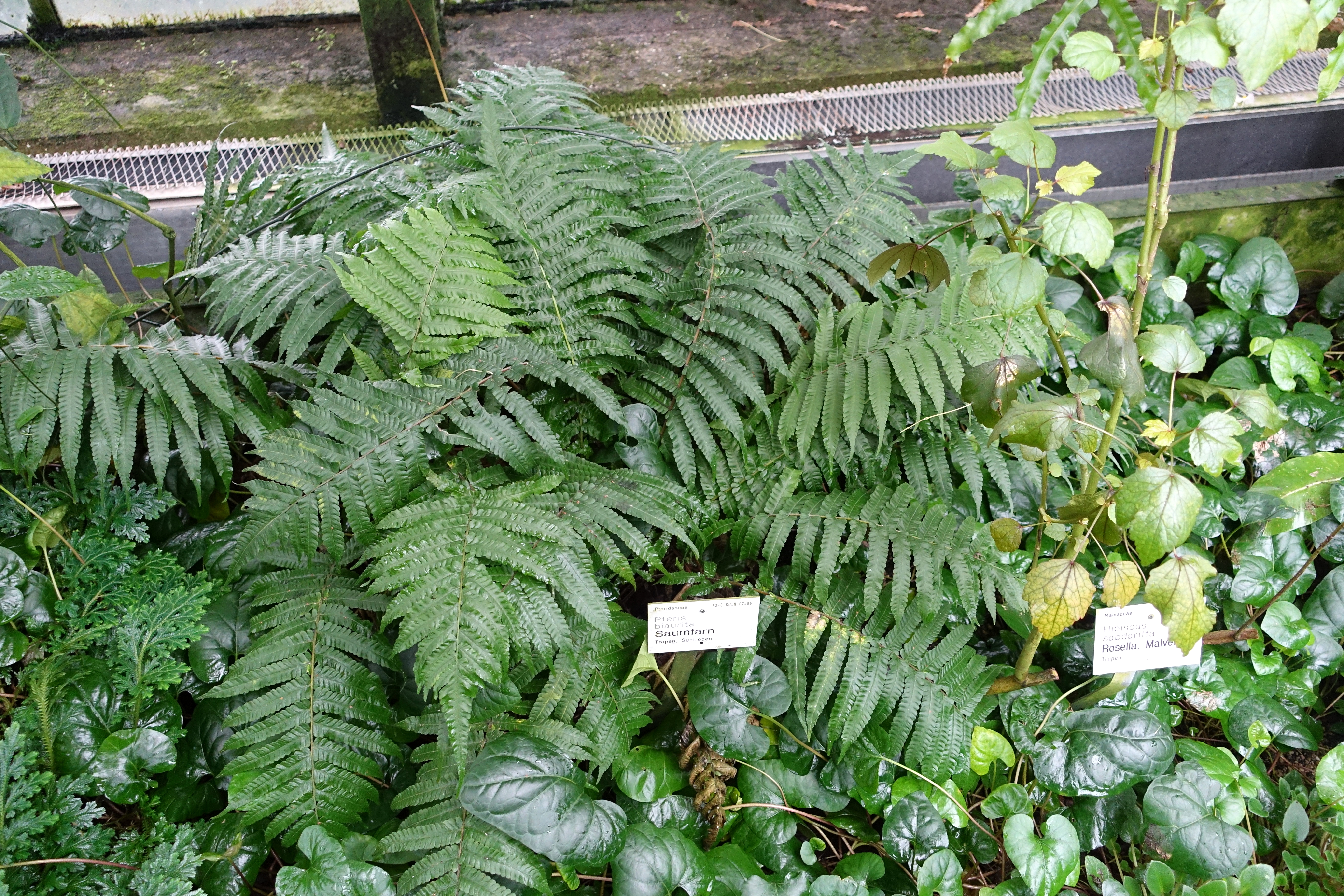 Botanical specimen in the Flora und Botanischer Garten Köln - Cologne, Germany.